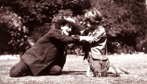 J. M. Barrie (as Hook) and Michael (as Peter Pan) on the lawn at Rustington, August 1906